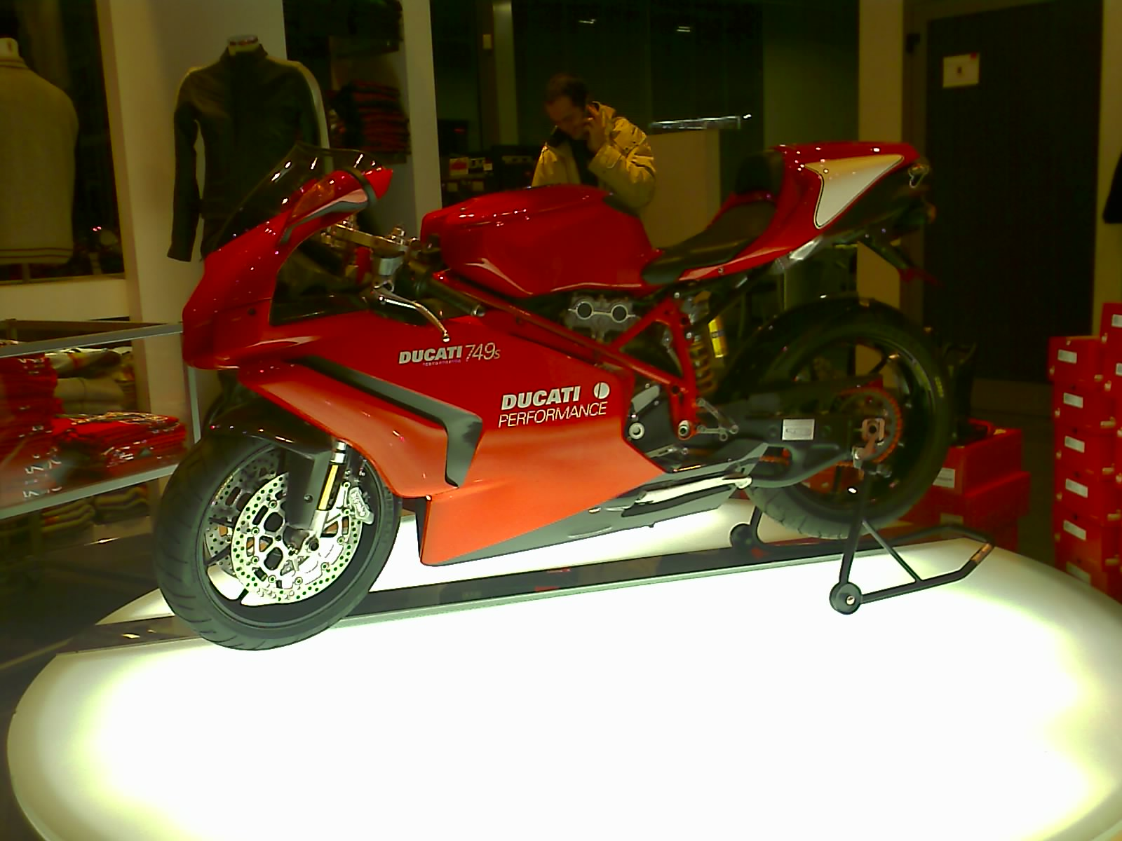 Ducati 749 on display at the Ducati retail store.